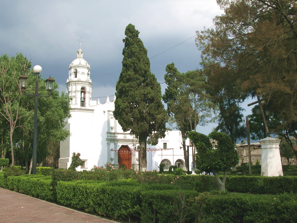 Former convent of San Antonio Tecómitl.